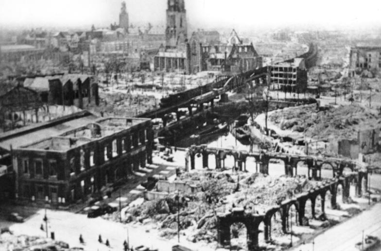 Information added by Wikimedia users.